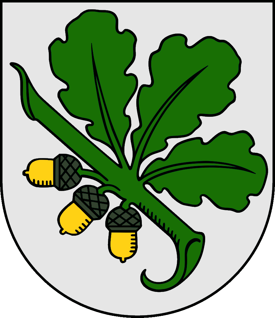 Coat of arms of the city of Kandava, Latvia